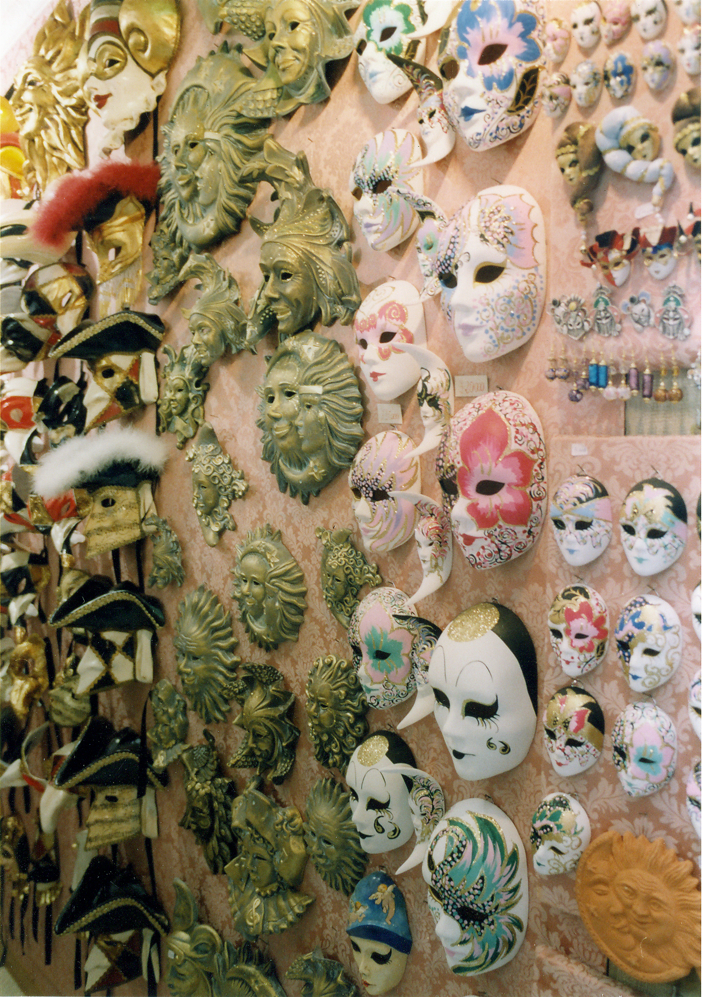 Venetian Carnival Masks in the gift shop, late 90's